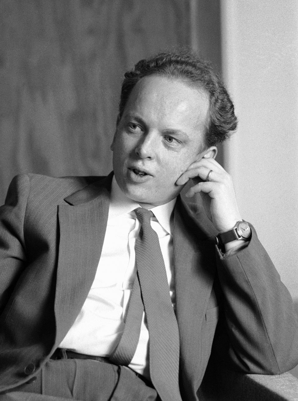 Photograph of the Finnish writer Veijo Meri (1928–2015).